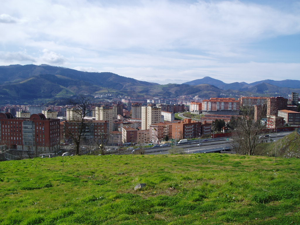 View of Otxarkoaga district (Bilbao) from Artxanda mountain.